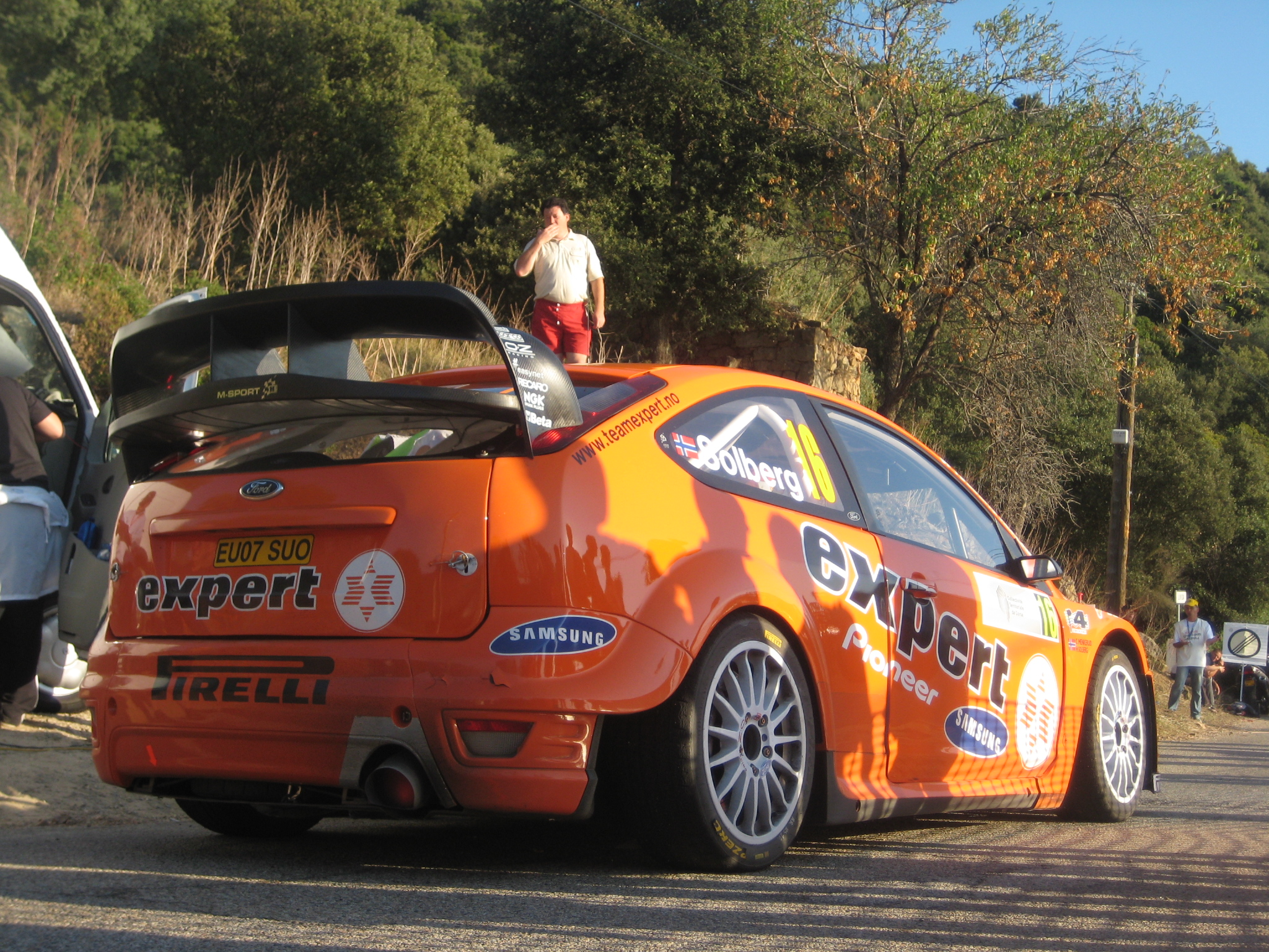 2008 Rallye de France, Day 2-SS12-finish, Henning Solberg - Ford Focus WRC